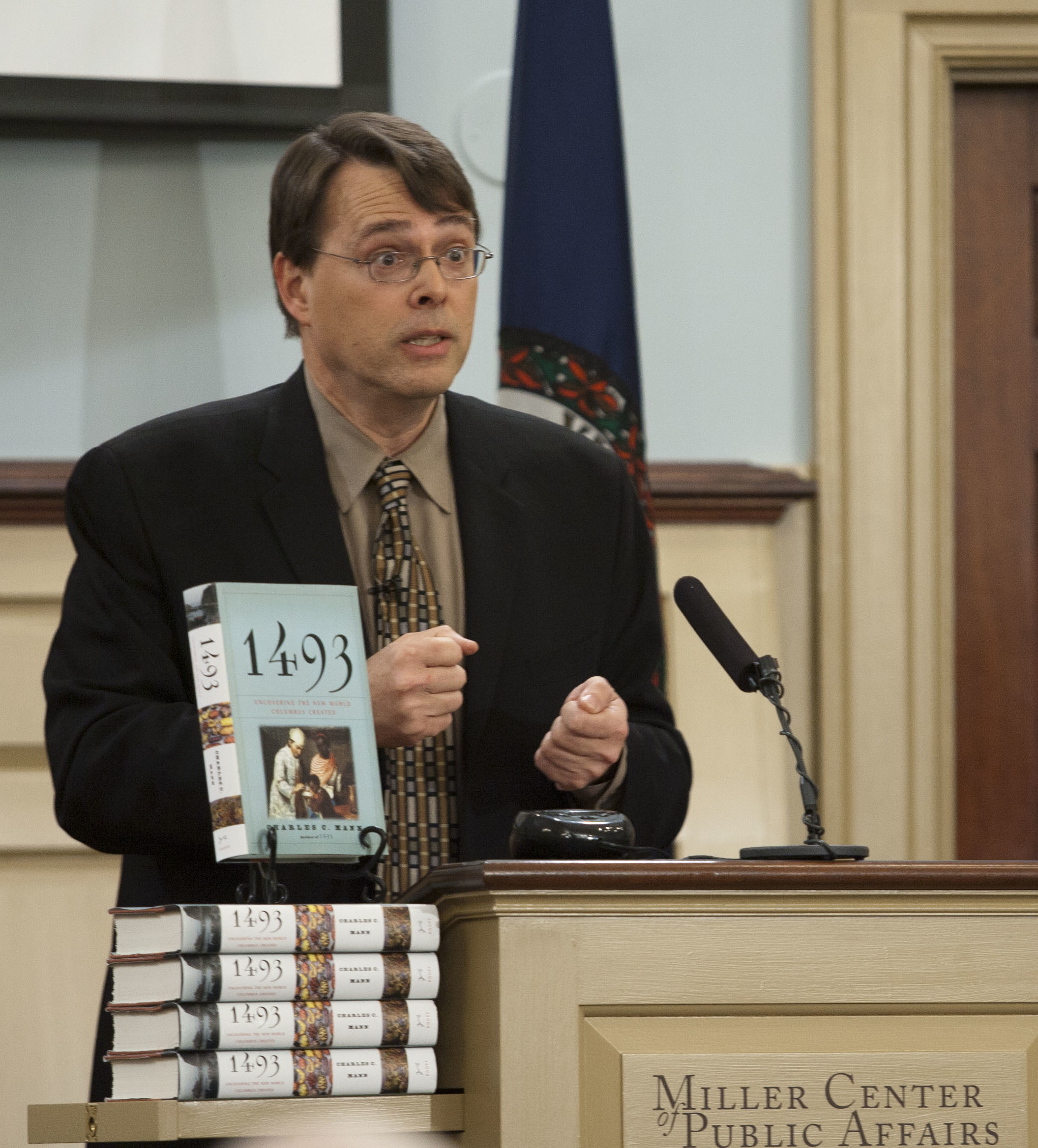 CHARLES C. MANN is a correspondent for the Atlantic, Science, and Wired, and has written for Fortune, the New York times, Smithsonian, technology Review, Vanity Fair , and the Washington Post. Held December 5, 2011. Miller Center, Charlottesville, VA. For more information, visit .